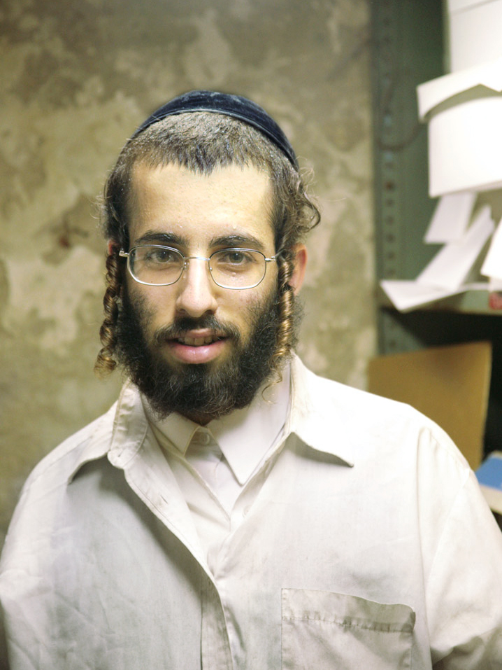 Mgarten took this photo with a Canon 5D on South 11th Street in Williamsburg August 11th 2006.